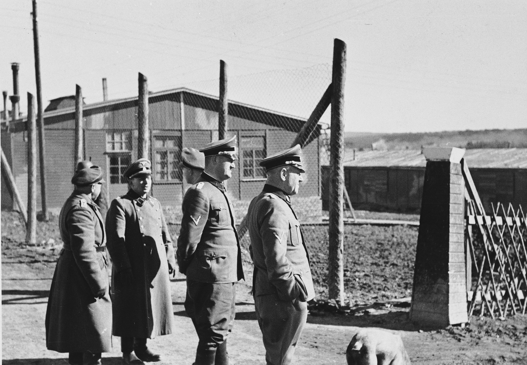 A group of SS officers tour the Hinzert concentration camp.